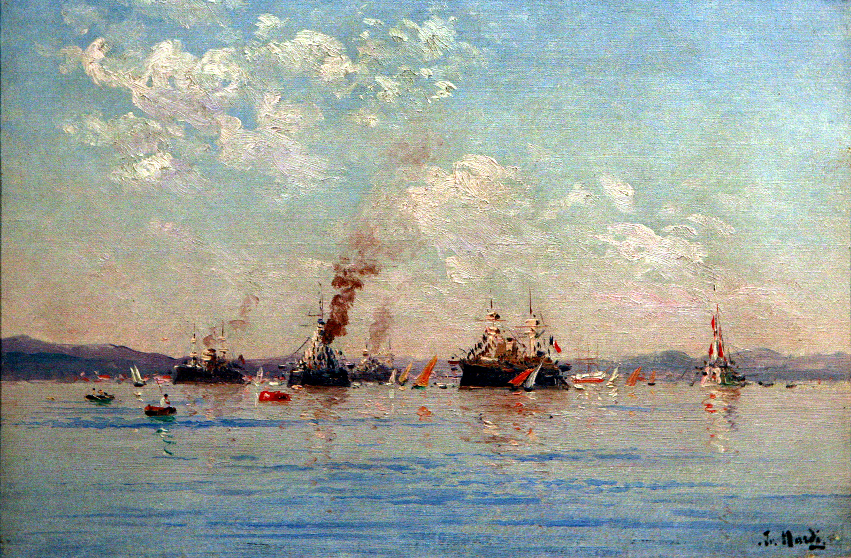 Squadron in Toulon road, fog effect